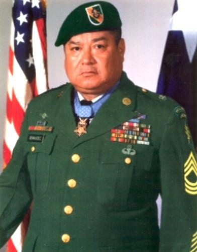 USArmy website